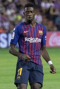 Real Valladolid - F. C. Barcelona, 2nd fixture of the 2018-19 La Liga, August 25, 2018.